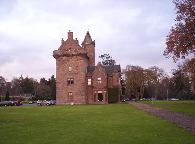 Guthrie Castle, Angus